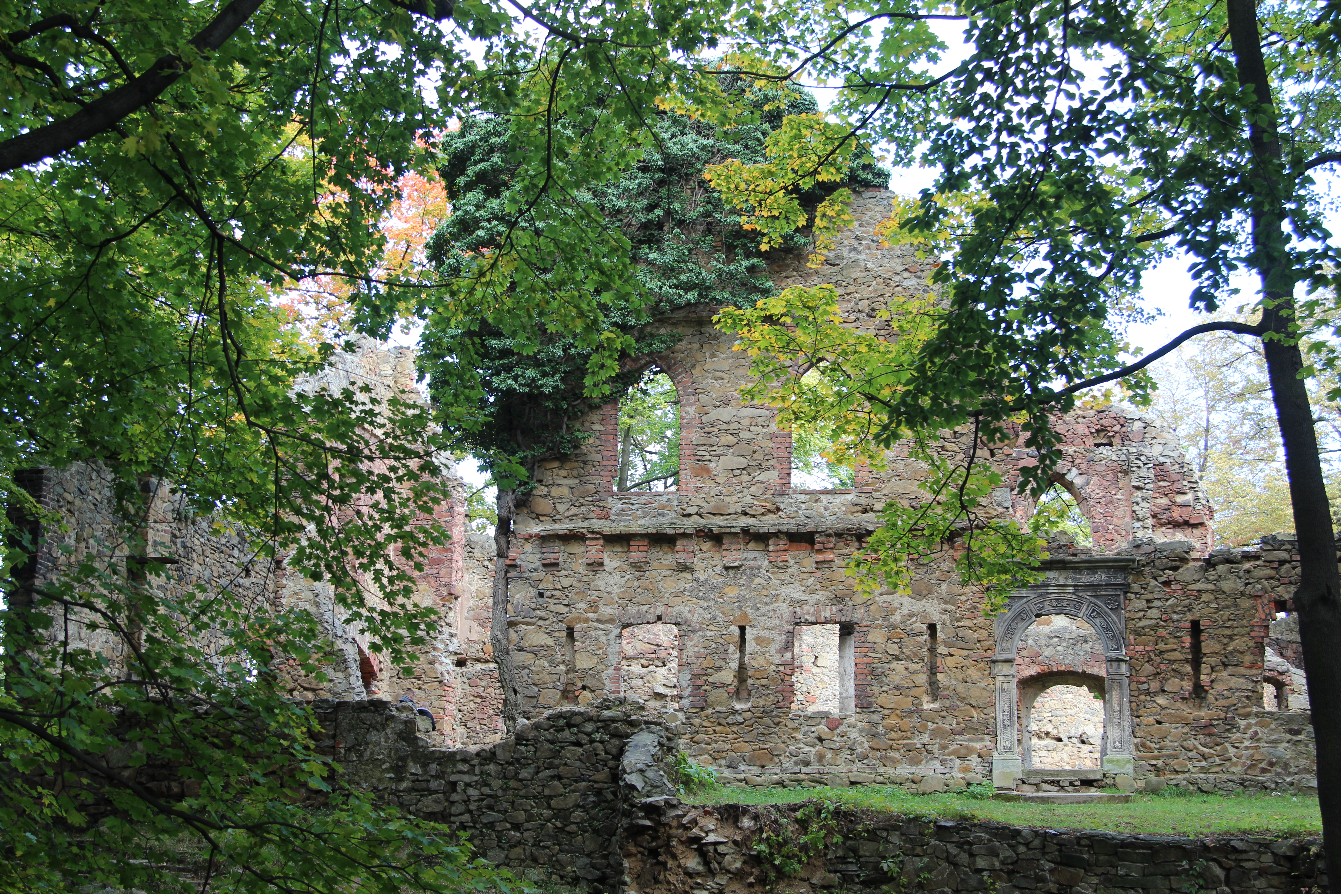 Old Książ Castle